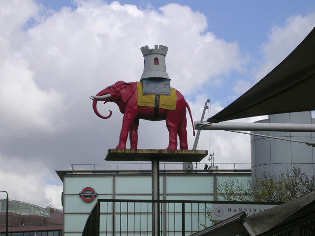 Elephant and Castle at Elephant and Castle Outside the tube station and the appropriately named "Hannibal House", by the bus stops, is this imaginative sculpture relating to the unusual name of this part of south London.